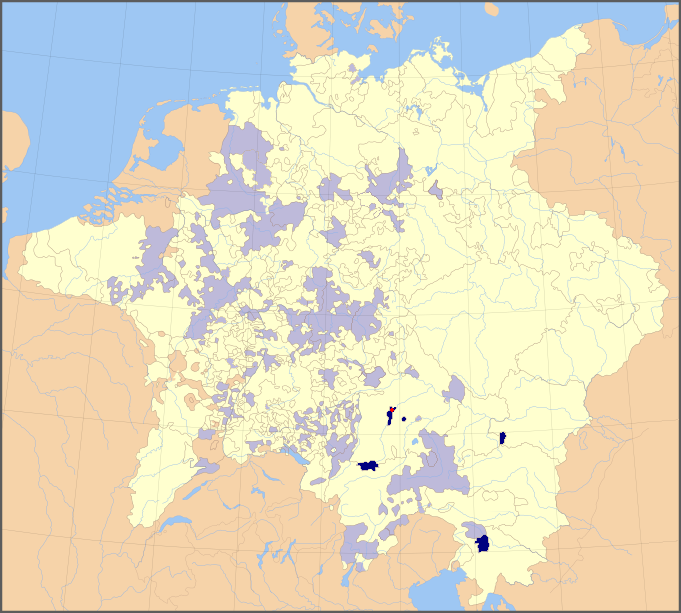 Map of the Holy Roman Empire, 1648, with the ecclesiastical principalities (electorates, prince-bishoprics, imperial abbeys, etc.) highlighted in light blue. The territories belonging to the prince-bishopric of Freising are highlighted in dark blue